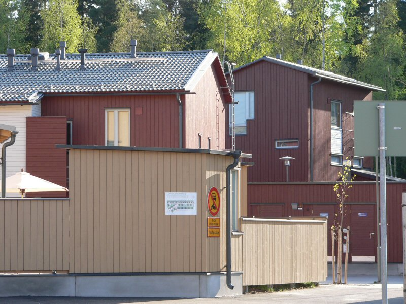 Lehtovuori, Konala, Helsinki, Finland